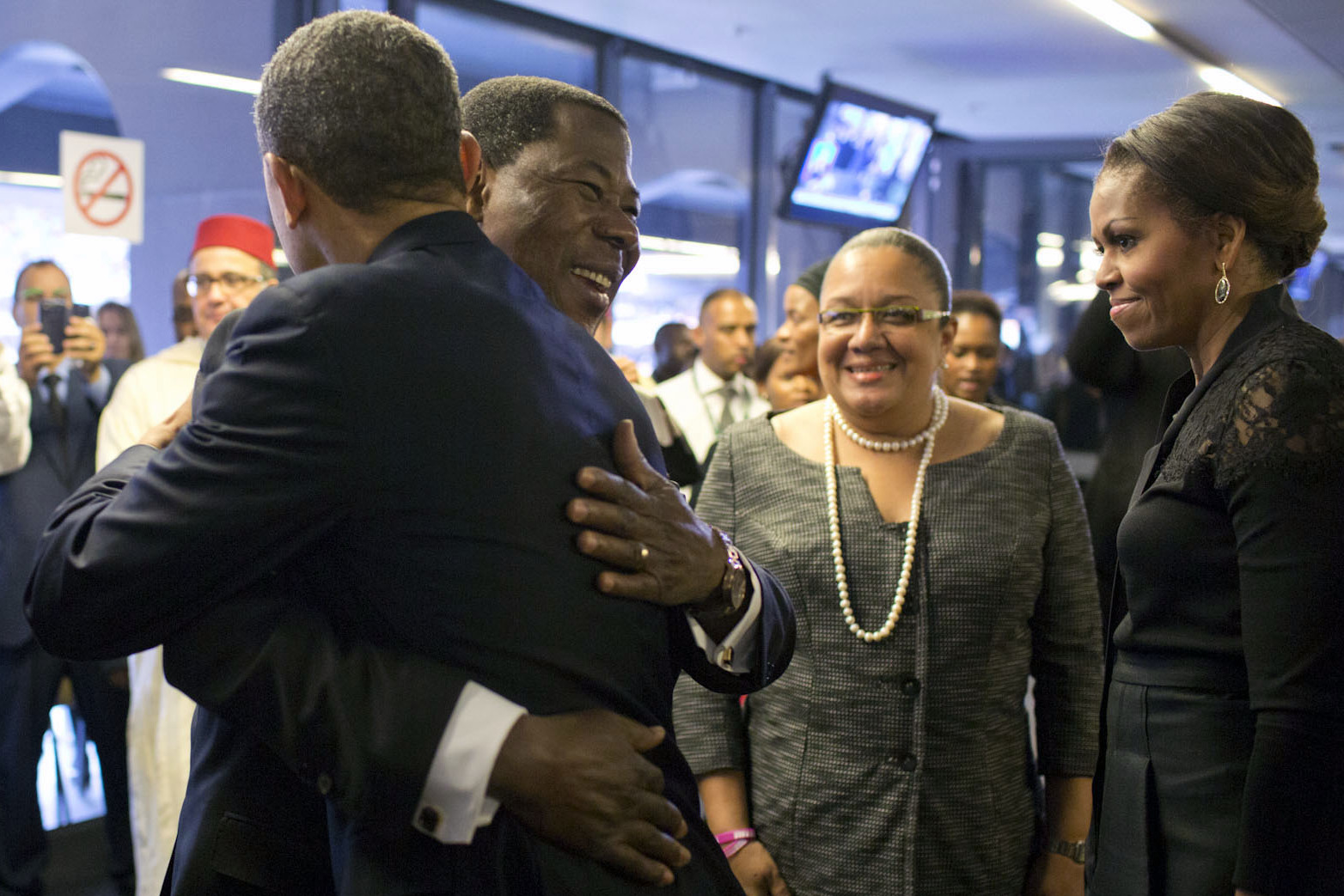 President Yayi Boni of Benin welcomes President Obama as he arrives at the soccer stadium for the Nelson Mandela memorial service. (Official White House Photo by Pete Souza) (This file is an edited cropped version of the original image uploaded.)